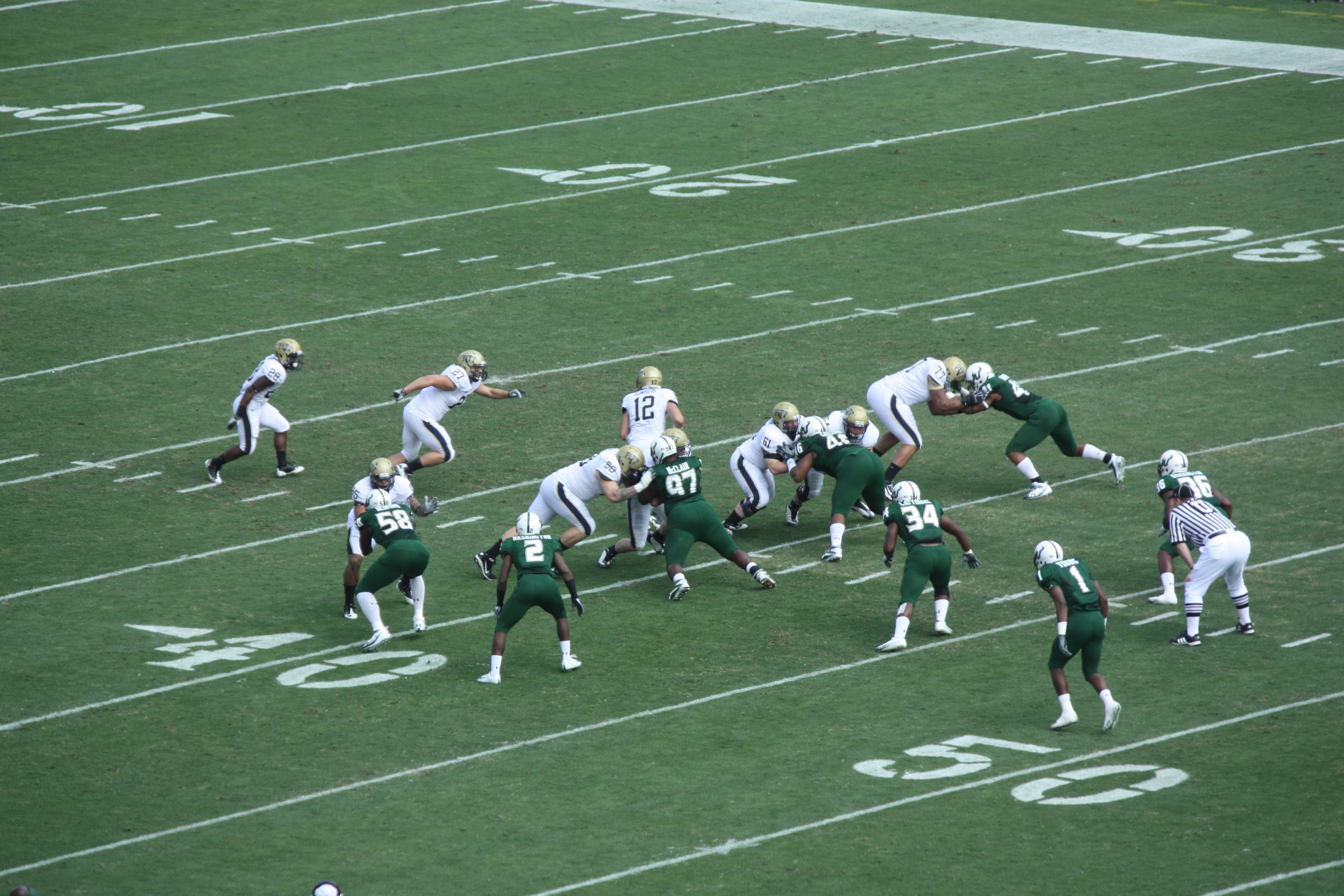 South Florida Bulls vs Pittsburgh Panthers, 20 November 2010